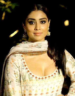 at Lakmee 2017